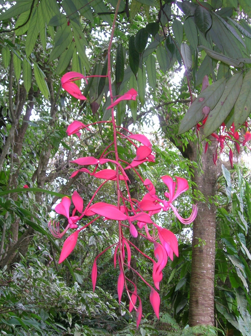 Amherstia nobilis